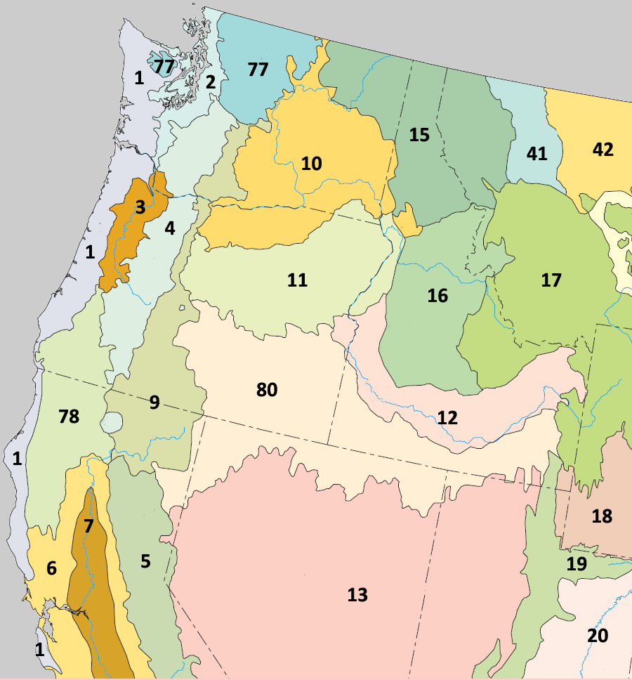 Level III ecoregions in the Pacific Northwest, as defined by the U.S. Environmental Protections Agency